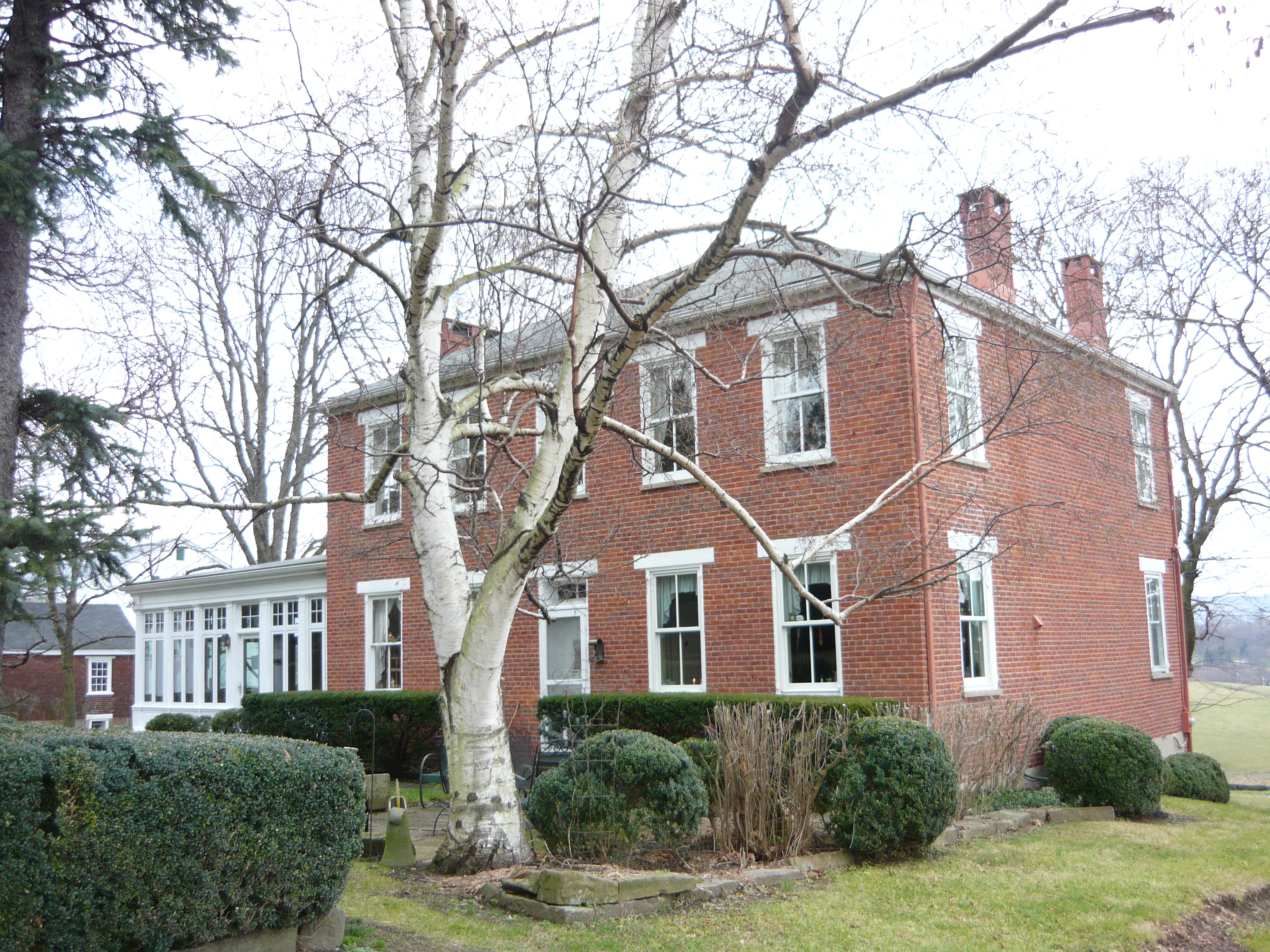 Sewickley Manor or Pollins House, 272 Pollins Road, near community of Trauger, Mount Pleasant Township, Westmoreland County, Pennsylvania. Built by David S. Pollins in 1852. Barn from 1849; smokehouse from 1790s.